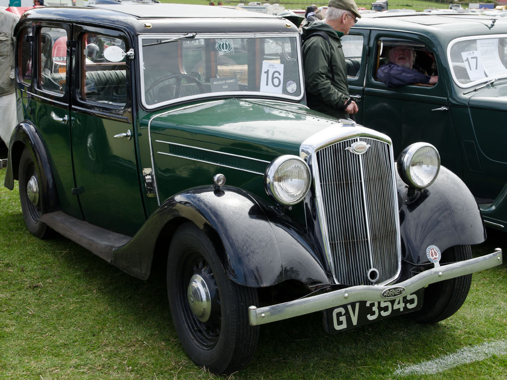 Wolseley Hornet 1935(DVLA) first registered 13 July 1935, 1378cc Llandudno Transport Festival 04/05/2013